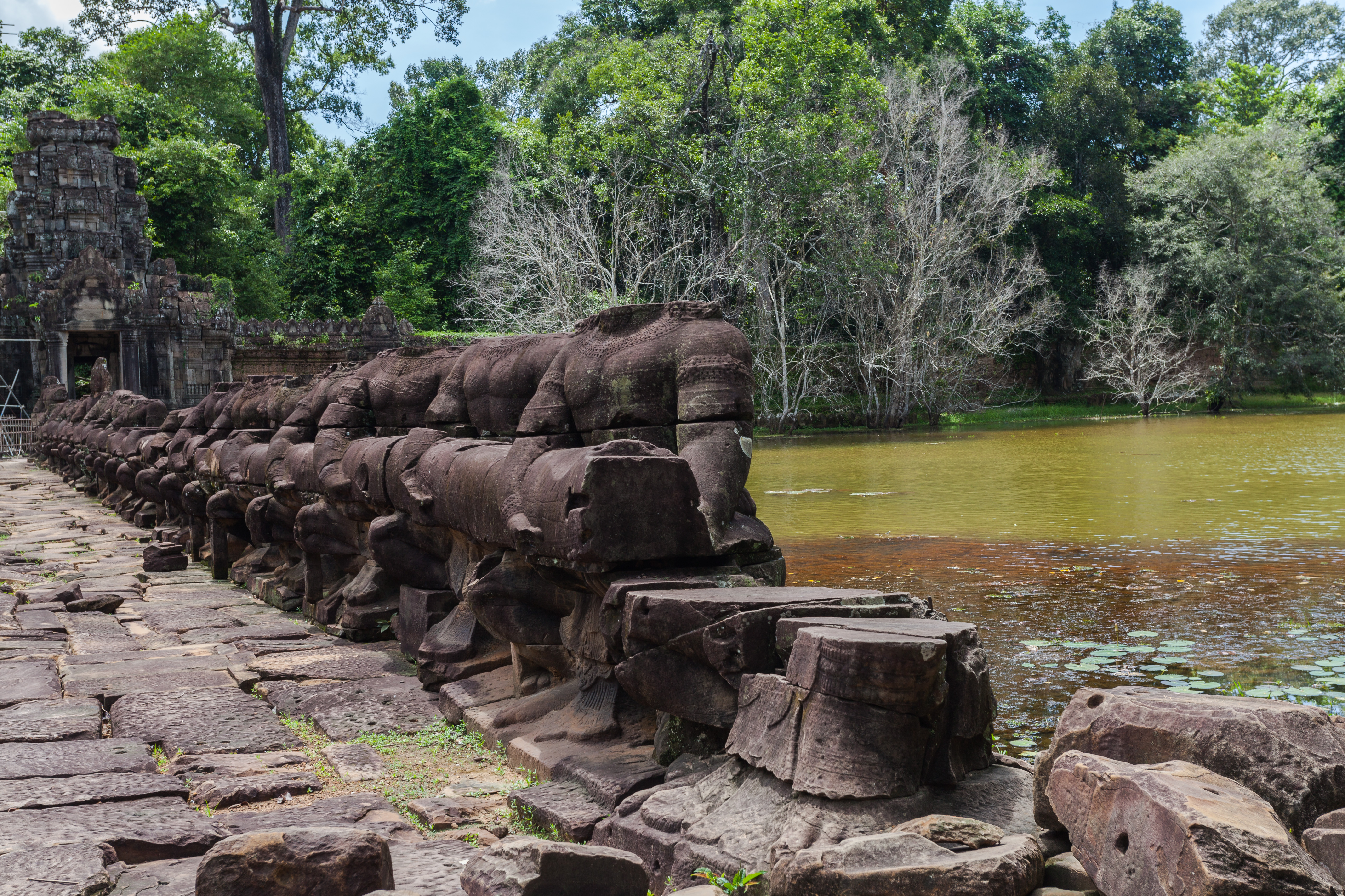 Preah Khan, Angkor, Cambodia